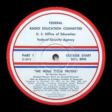 Label of a transcription disc of the live radio broadcast of We Hold These Truths, a one-hour program written and produced by Norman Corwin celebrating the 150th anniversary of the United States Bill of Rights. It was commissioned by the U.S. government under the auspices of the Office of Education.